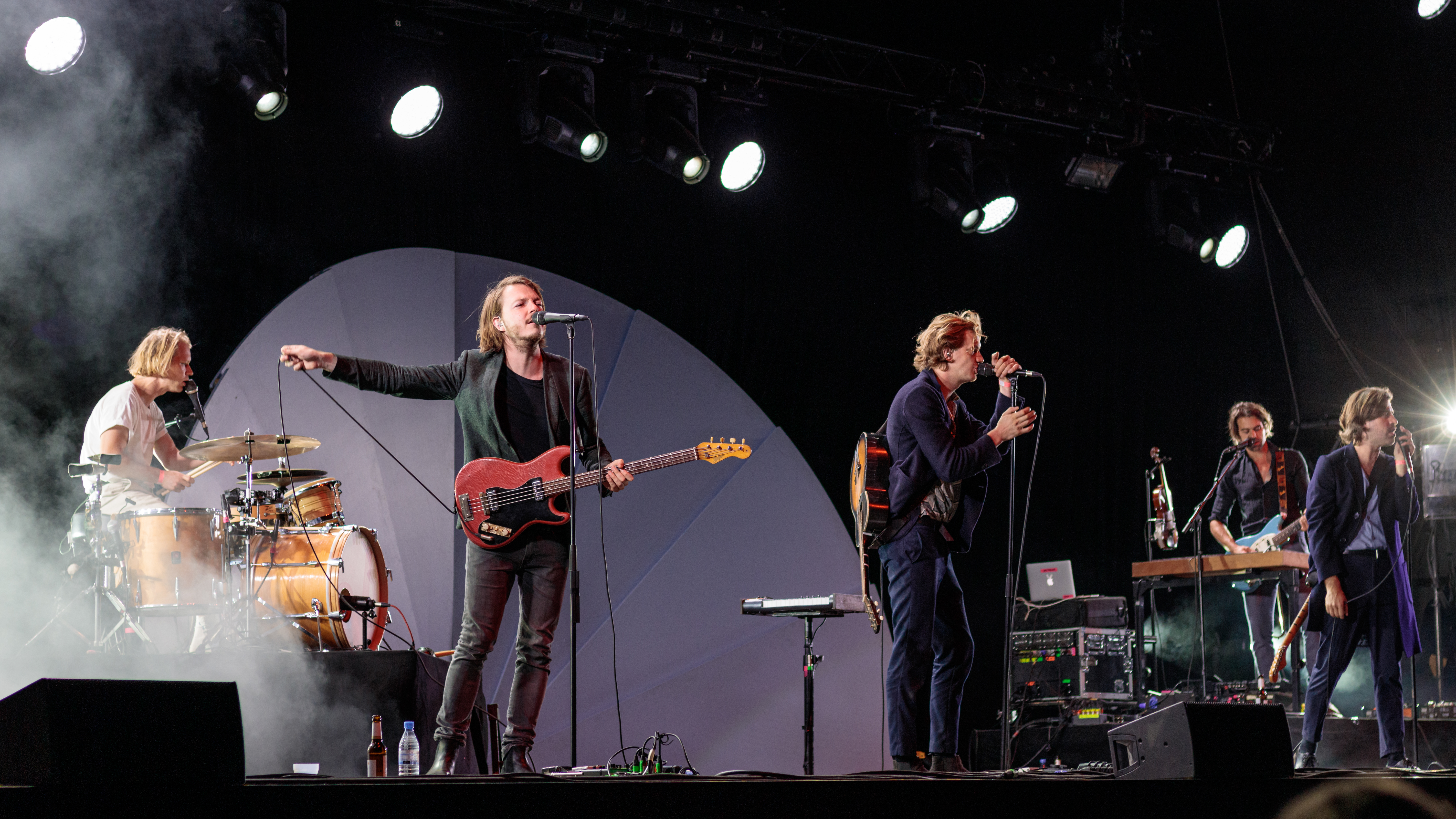 Balthazar on the Mainstage at Haldern Pop Festival 2019.